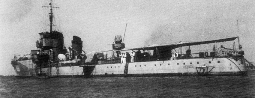 Destroyer Teruel (T), Teruel class (1938).